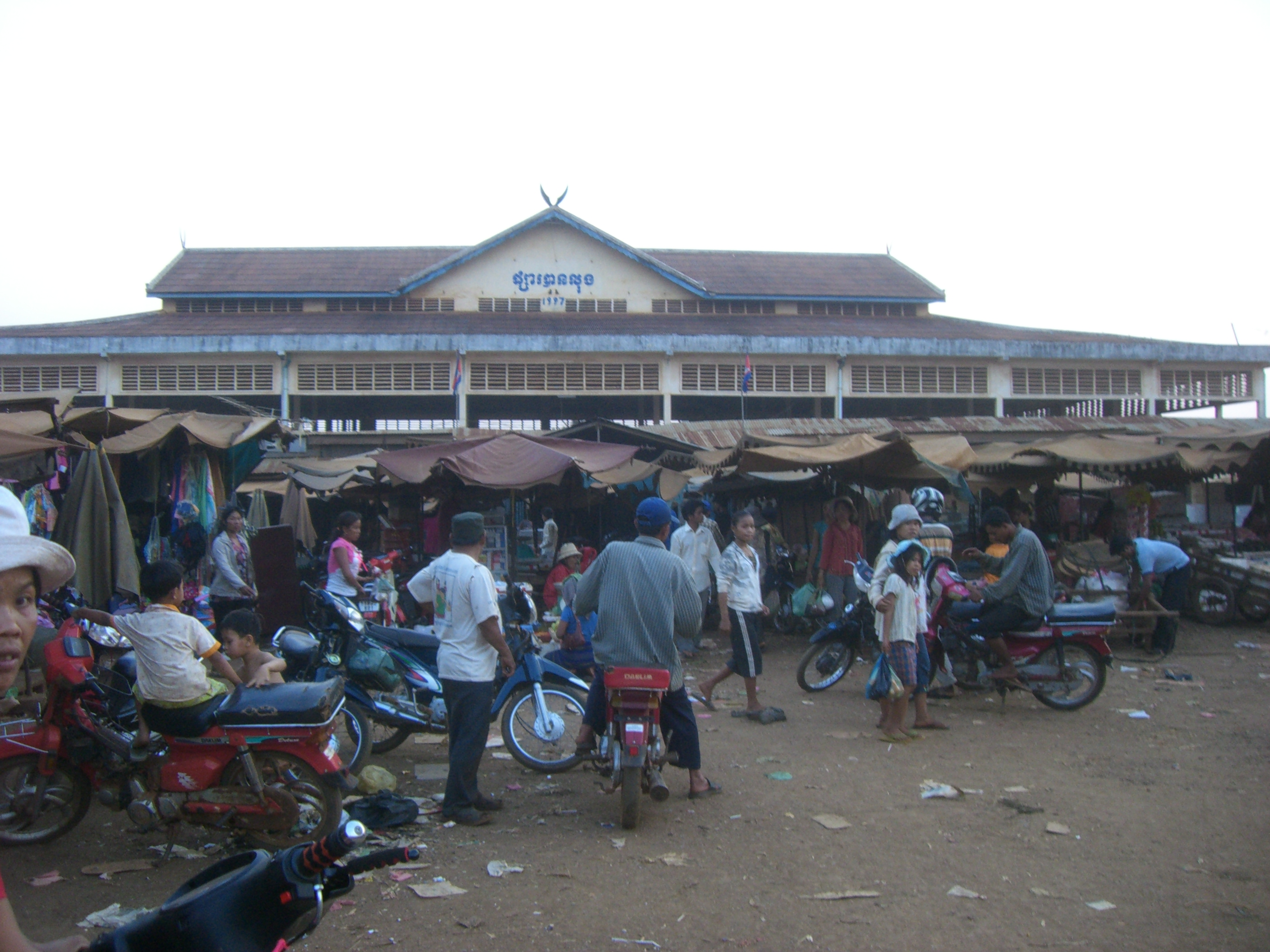 This building is the main market in town. The year on top shows that it was built in 1997.